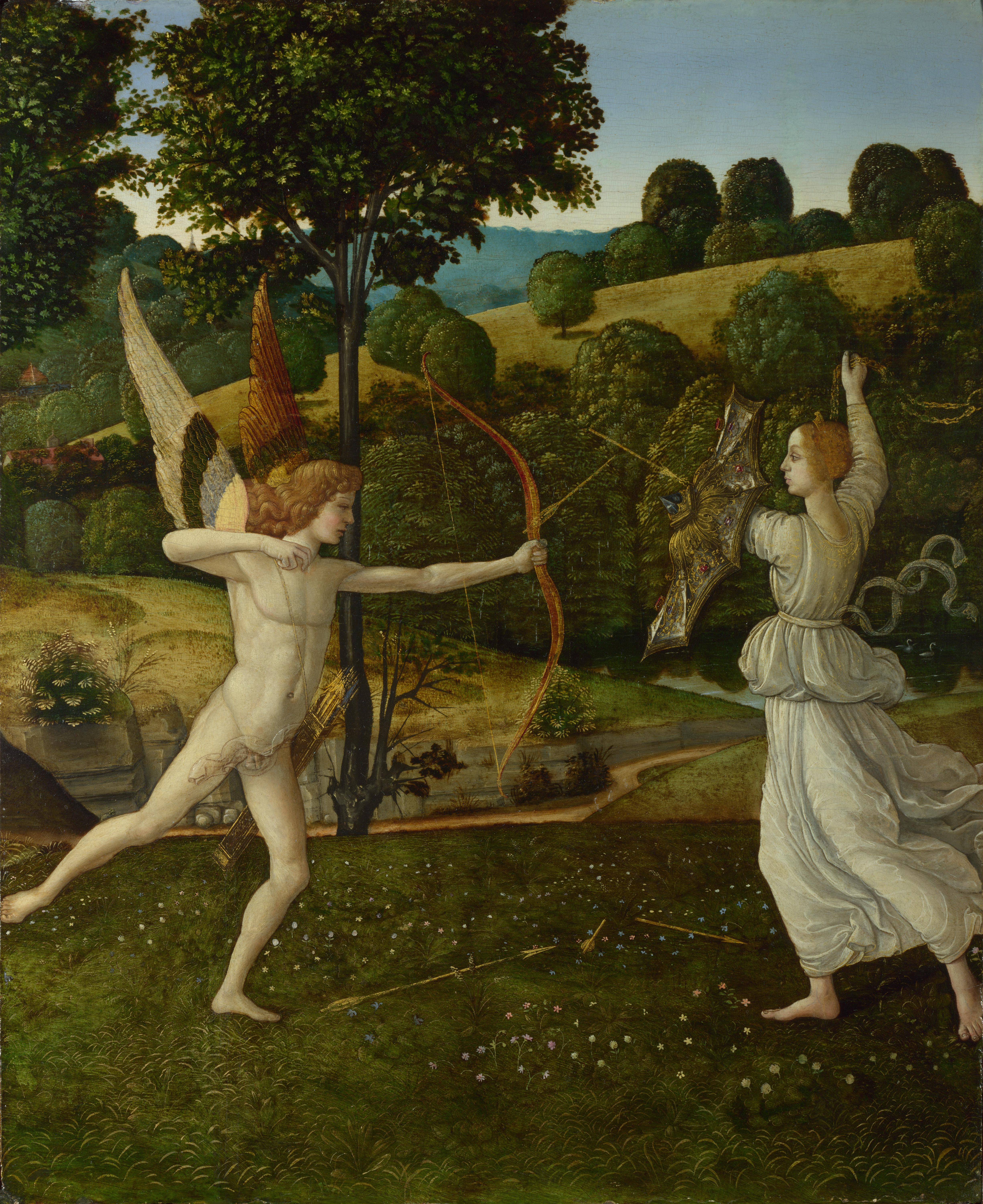 The Combat of Love and Chastity shows Cupid's arrow breaking on Chastity's shield, while she threatens him with chains. A second painting, the Triumph of Chastity, shows her in a triumphal chariot, drawn by two unicorns, with Cupid bound at her feet.